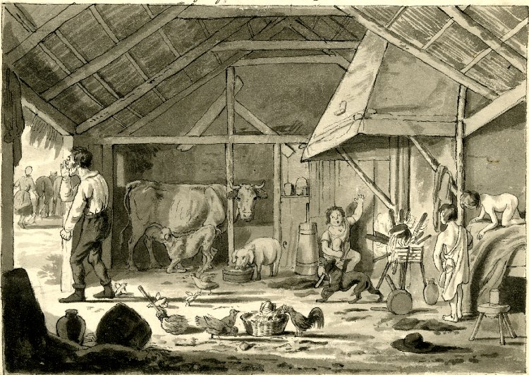 A print of the early nineteenth century by Walter Geikie (1796-1837) . It illustrates the Scots poem 'The Wife of Auchtermuchty'. (British Museum)